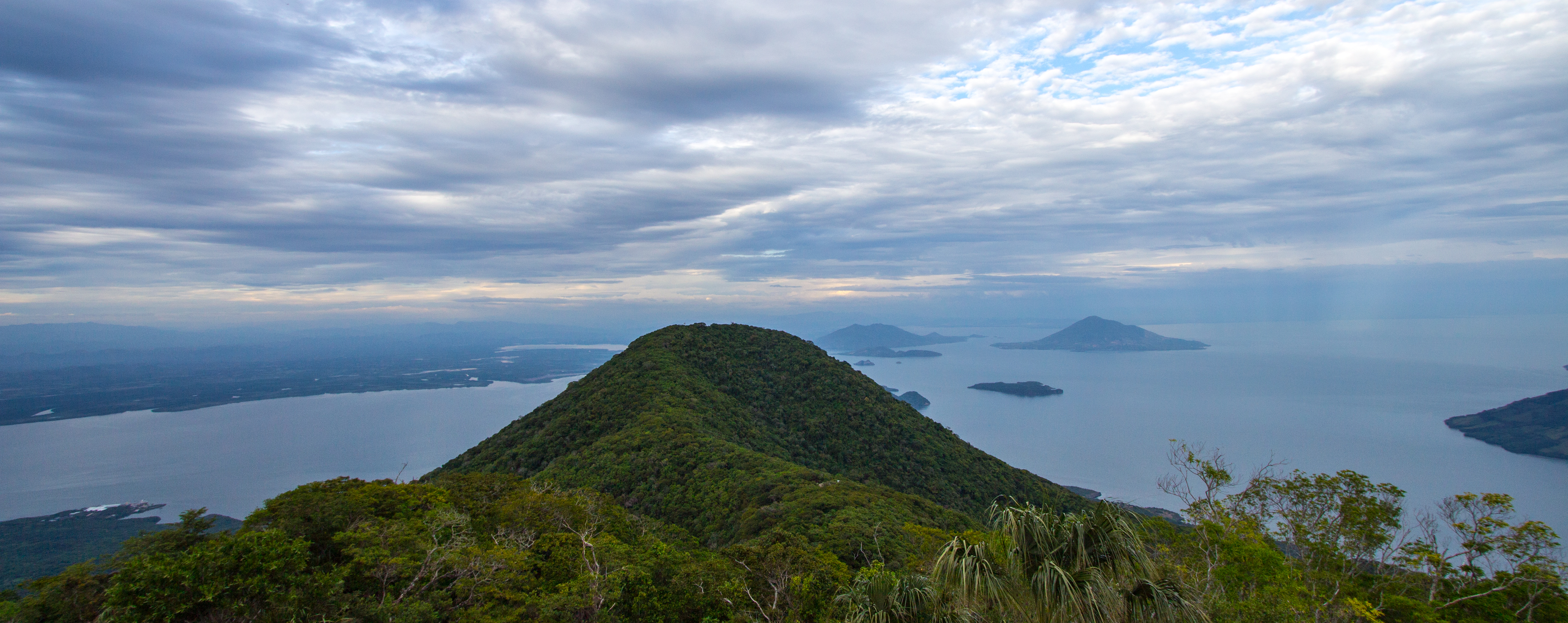 Panorámica de Golfo de Fonseca, Conchagua.